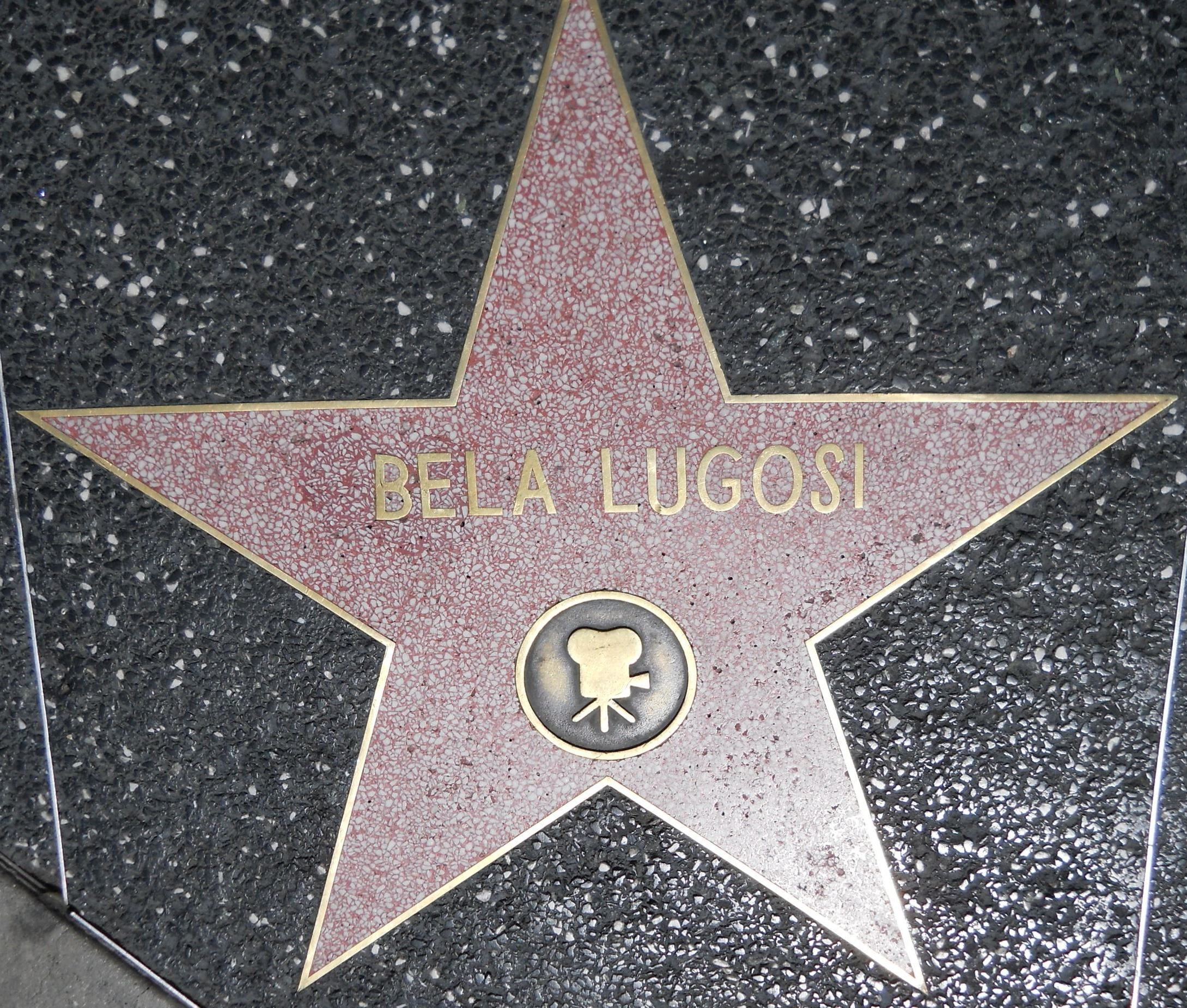 Bela Lugosi's star on Hollywood Walk of Fame, 6340 Hollywood Blvd.